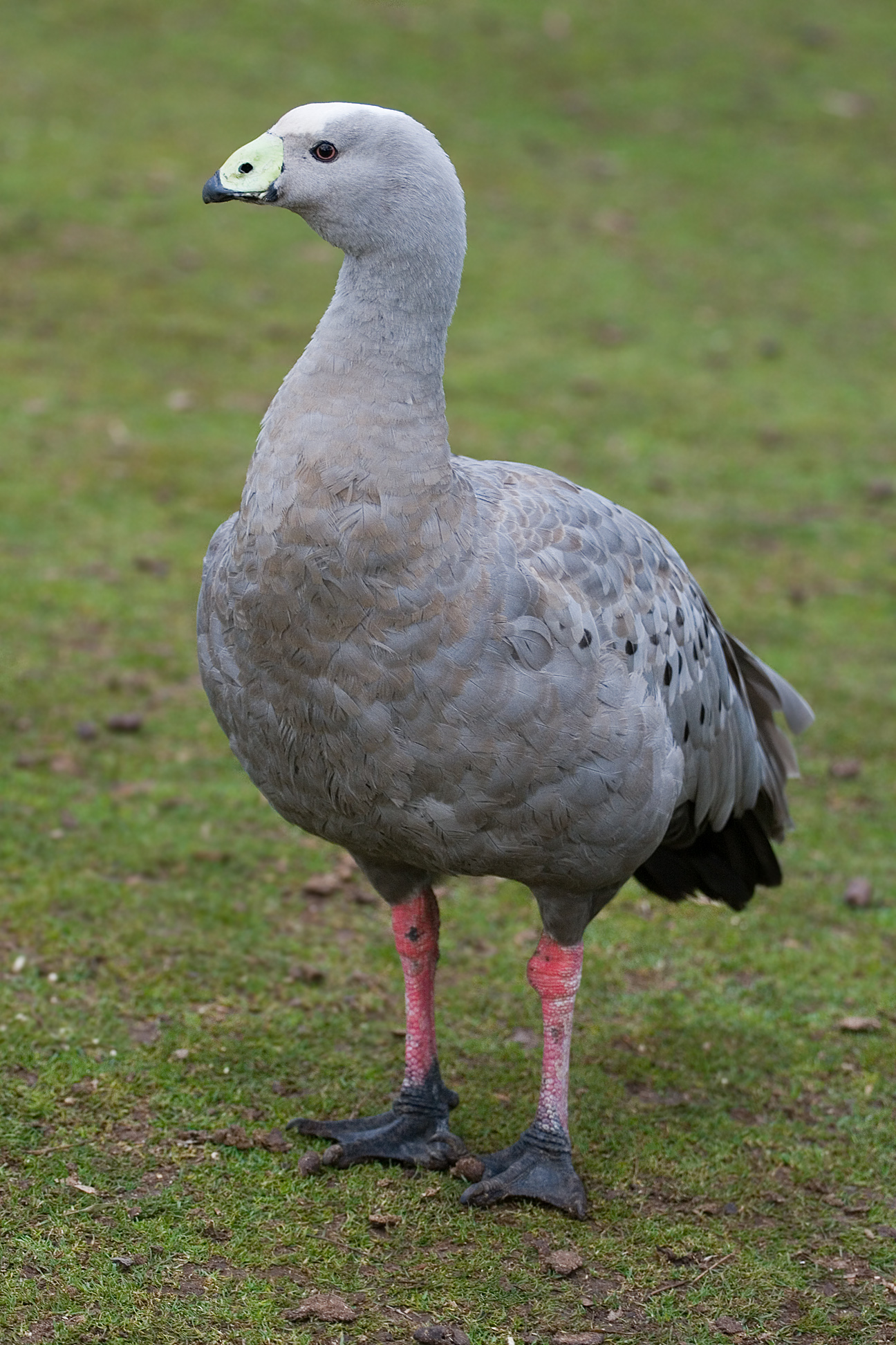 A Cape Barren Goose (Cereopsis novaehollandiae) in Tasmania, Australia